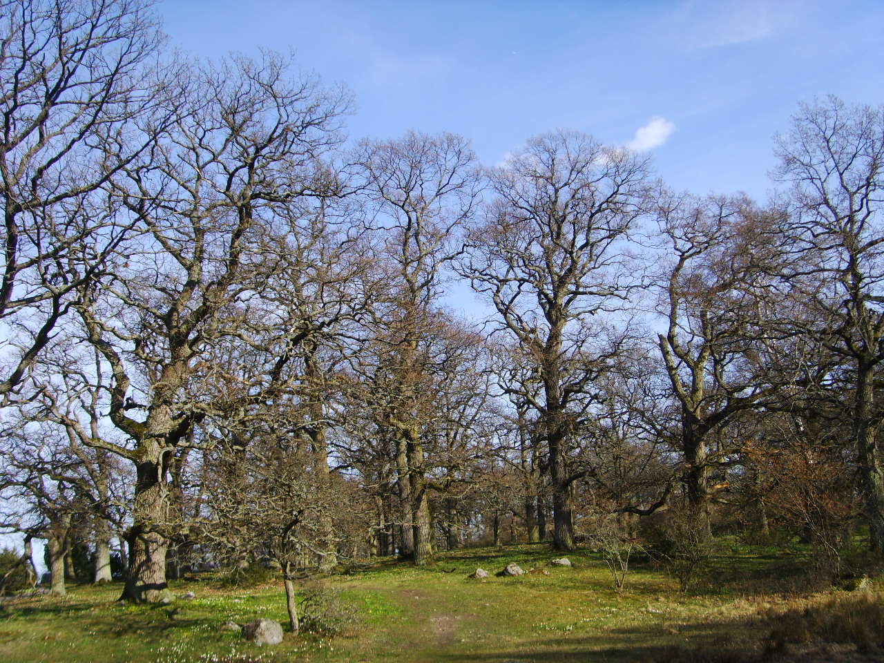 "Djuröns naturreservat", a nature reserve in the Municipality of Norrköping.